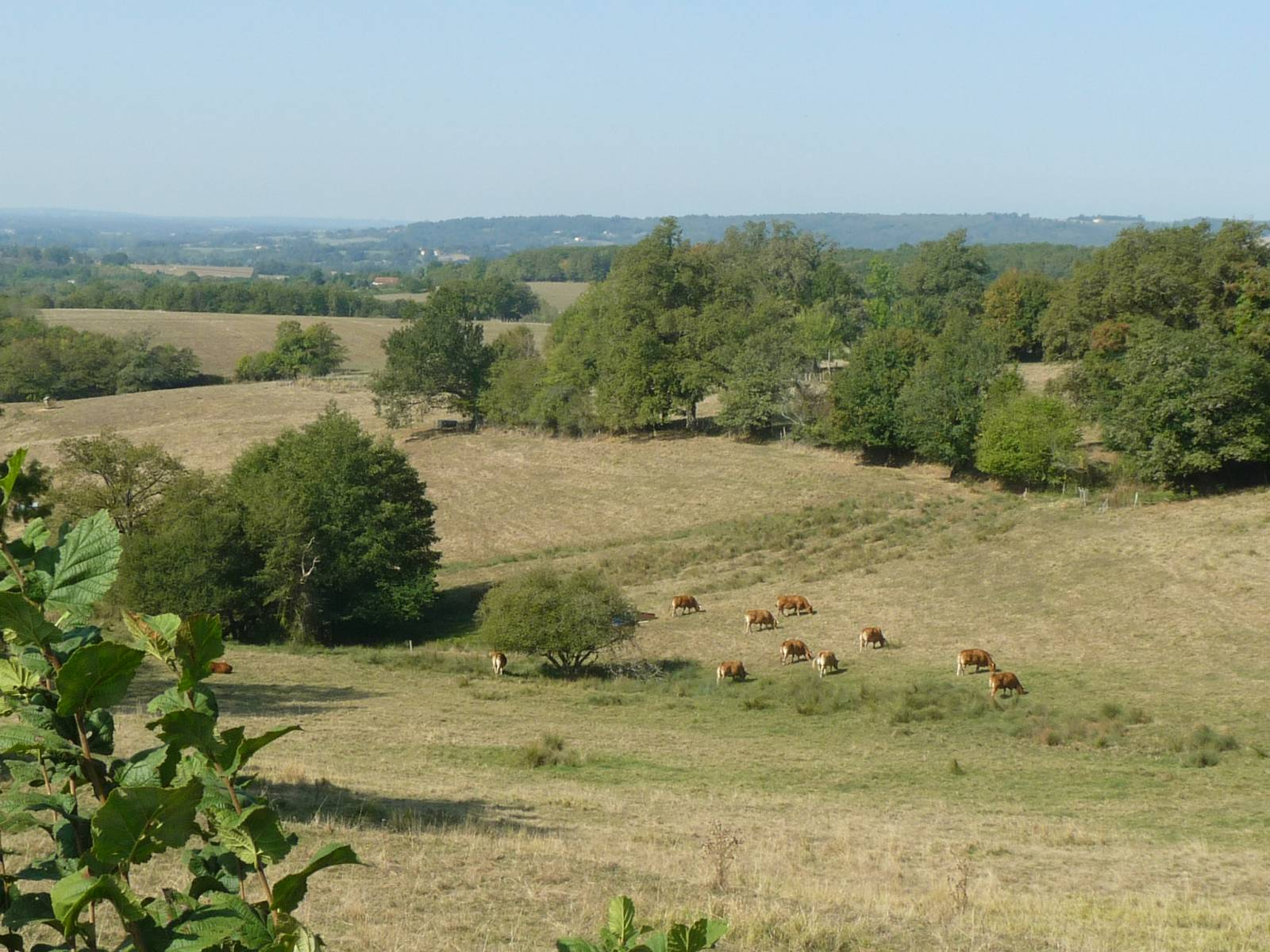 the countryside at Ecuras, Charente, SW France